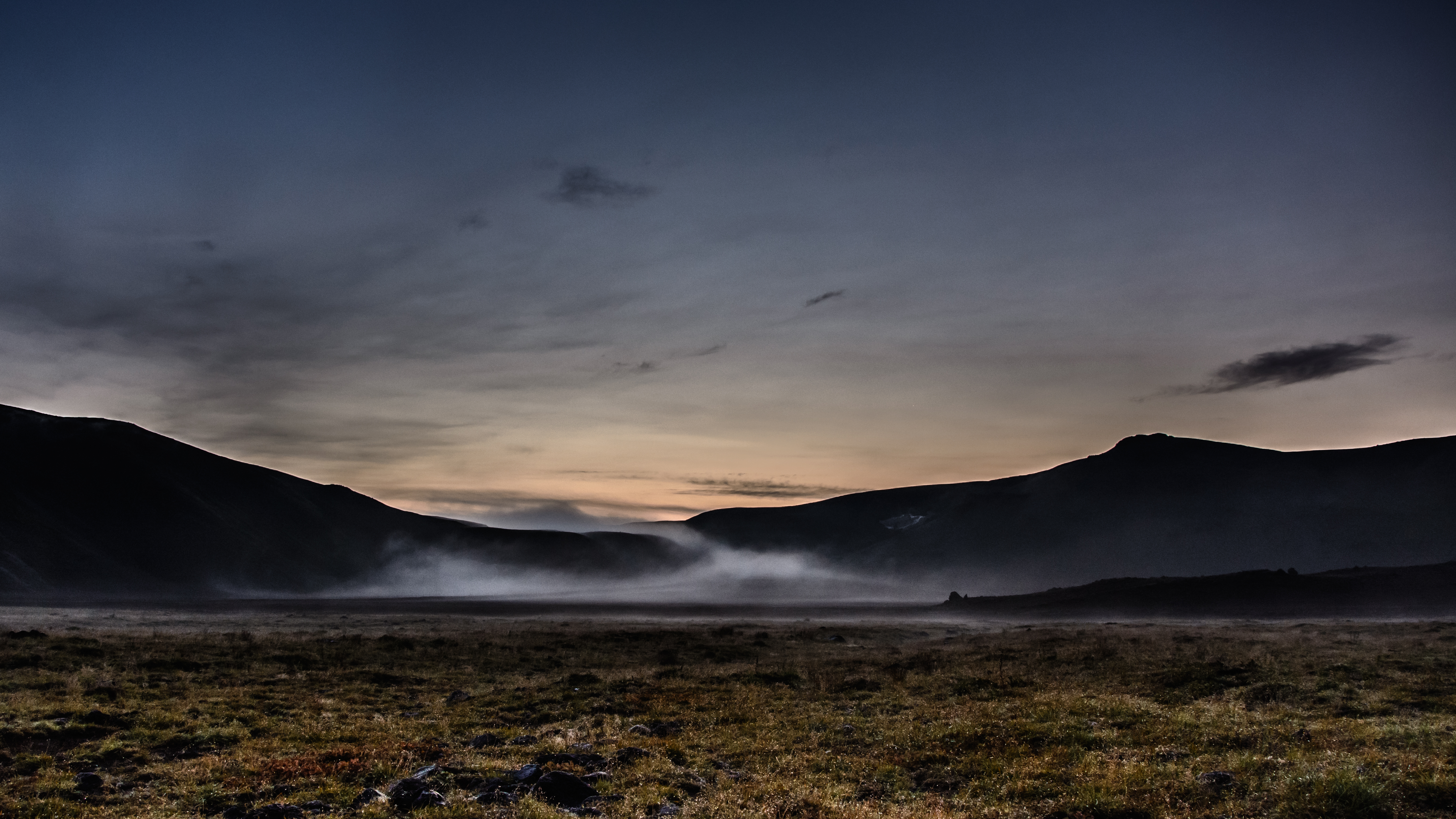 Light morning fog over the caldera of volcano Gorely, Kamchatka, Russia